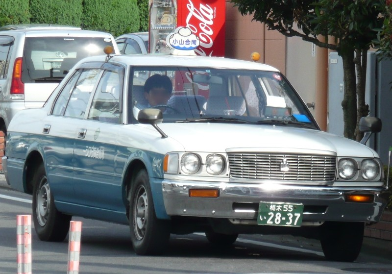 Toyota Crown taxi.